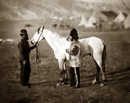 Photograph of Colonel Clarke, of the Royal Scots Greys, with a charger that had been wounded at the Battle of Balaclava. The man holding the horse's bridle may have been Clarke's batman.